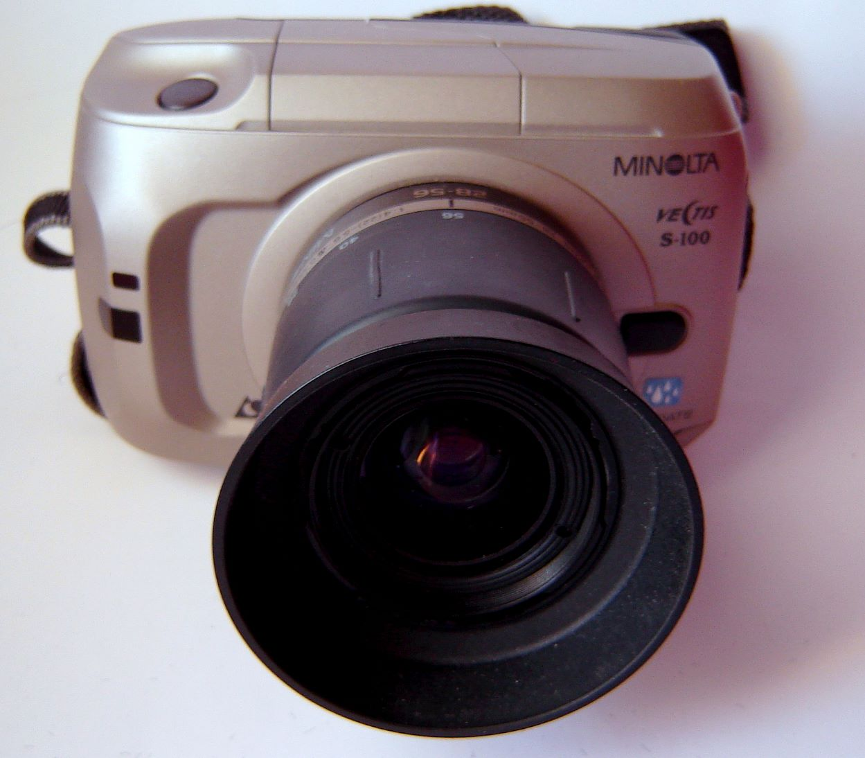 $10 shipped.